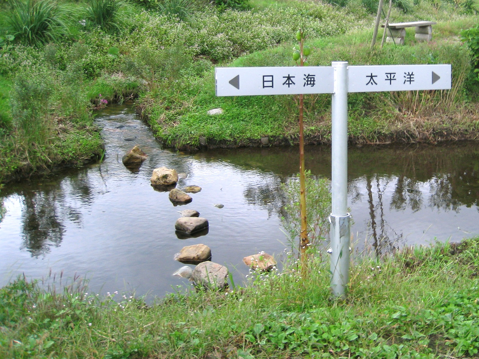 Drainage divide in the Pacific Ocean(right) and the Sea of Japan(left) near Sakaida Station, This photo taken in September 28, 2007